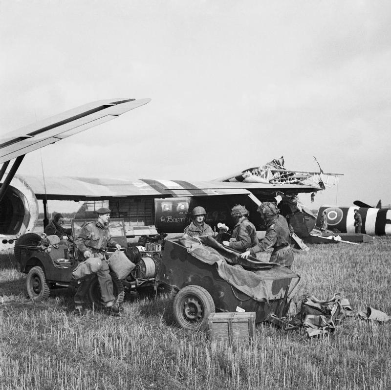 THE BRITISH AIRBORNE DIVISION AT ARNHEM AND OOSTERBEEK IN HOLLAND. The first two gliders to touch down, their wing tips interlocked after colliding on landing. In the foreground are the Headquarters Artillery Group.